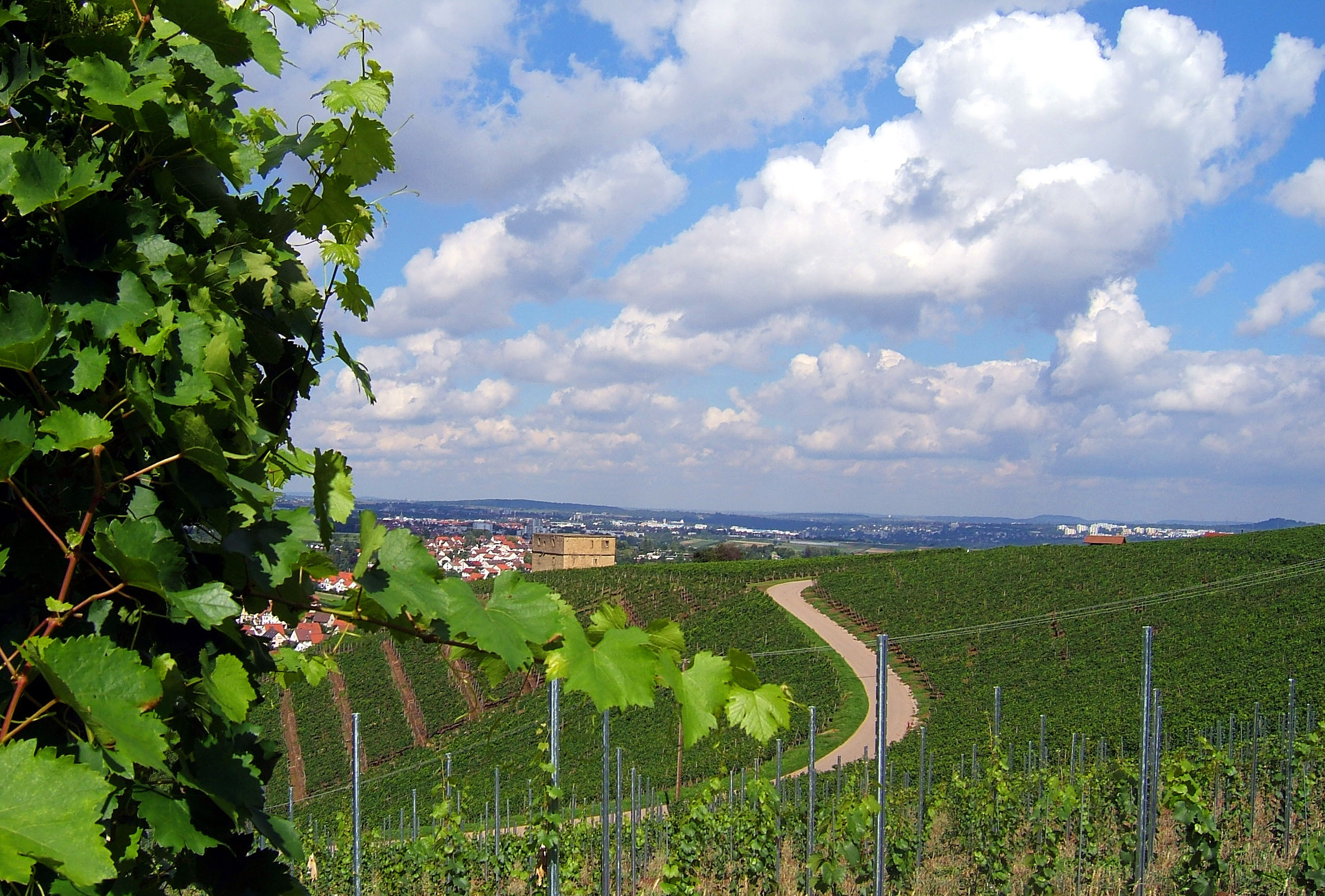 Y-Burg, a ruin in Germany